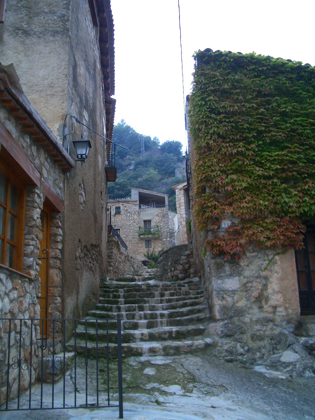 A street in Vallespinosa (Conca de Barberà, Catalonia)